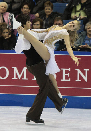 Kaitlyn Weaver & Andrew Poje perform a straight-line lift (Level 4) during their free dance at the 2009 Canadian Figure Skating Championships.